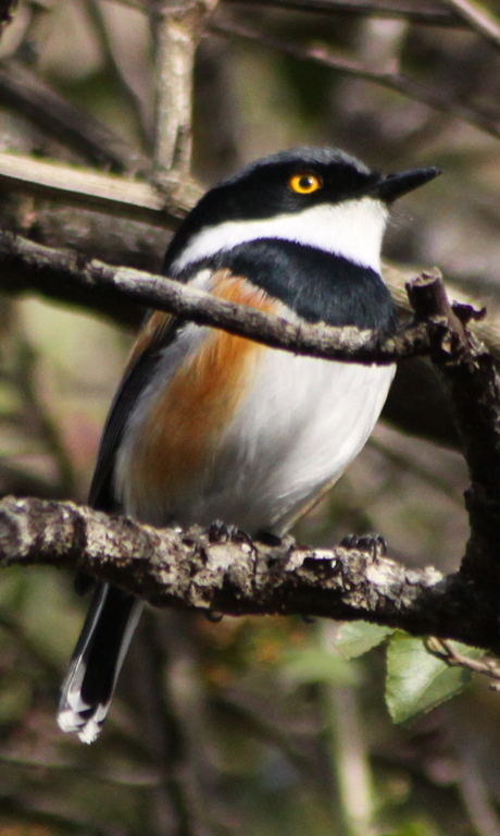 An adult male Cape batis in KwaZulu-Natal, South Africa